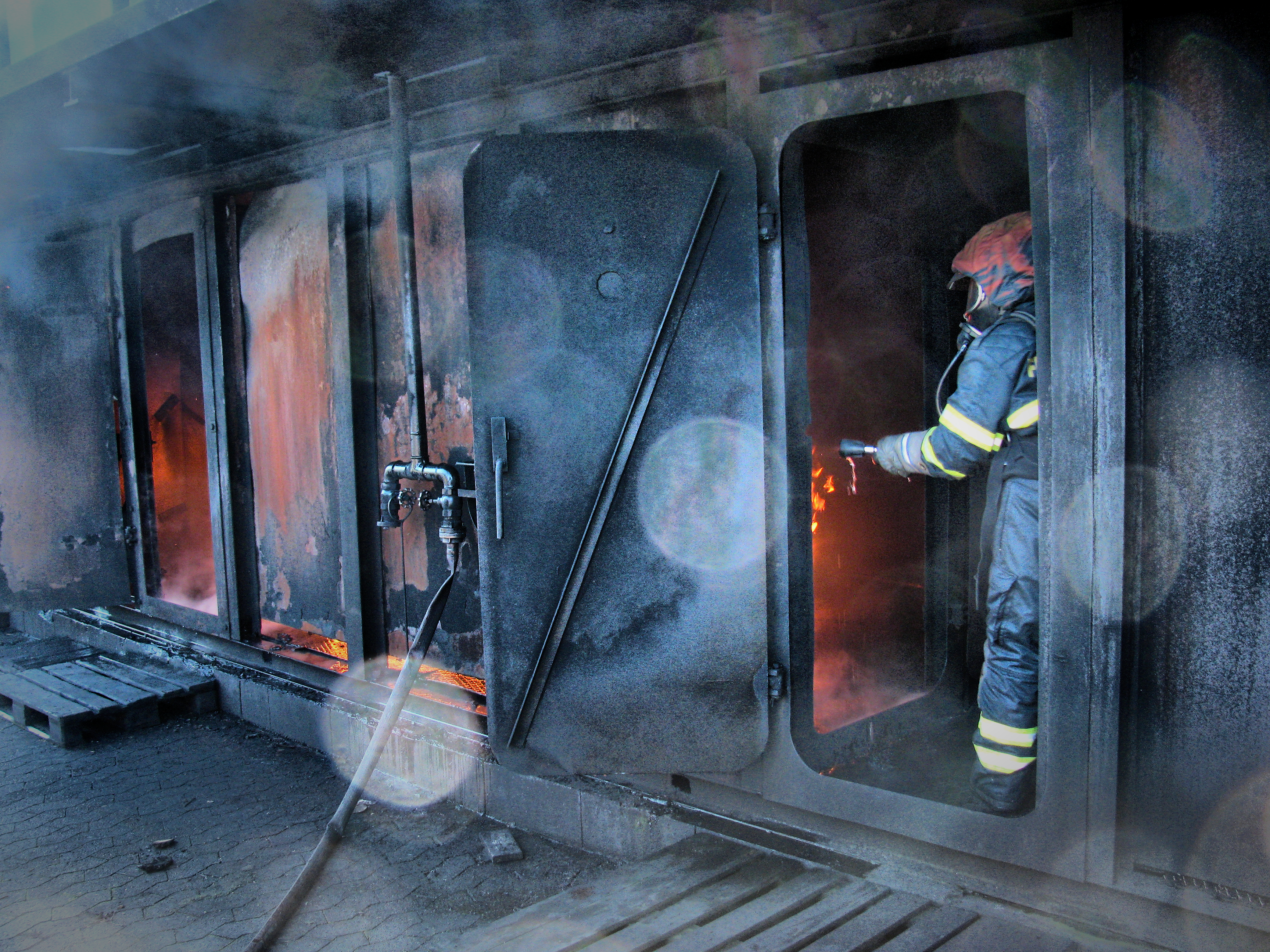 Firefighting exercise at Nordjysk Brand- og Redningsskole, Frederikshavn, Denmark